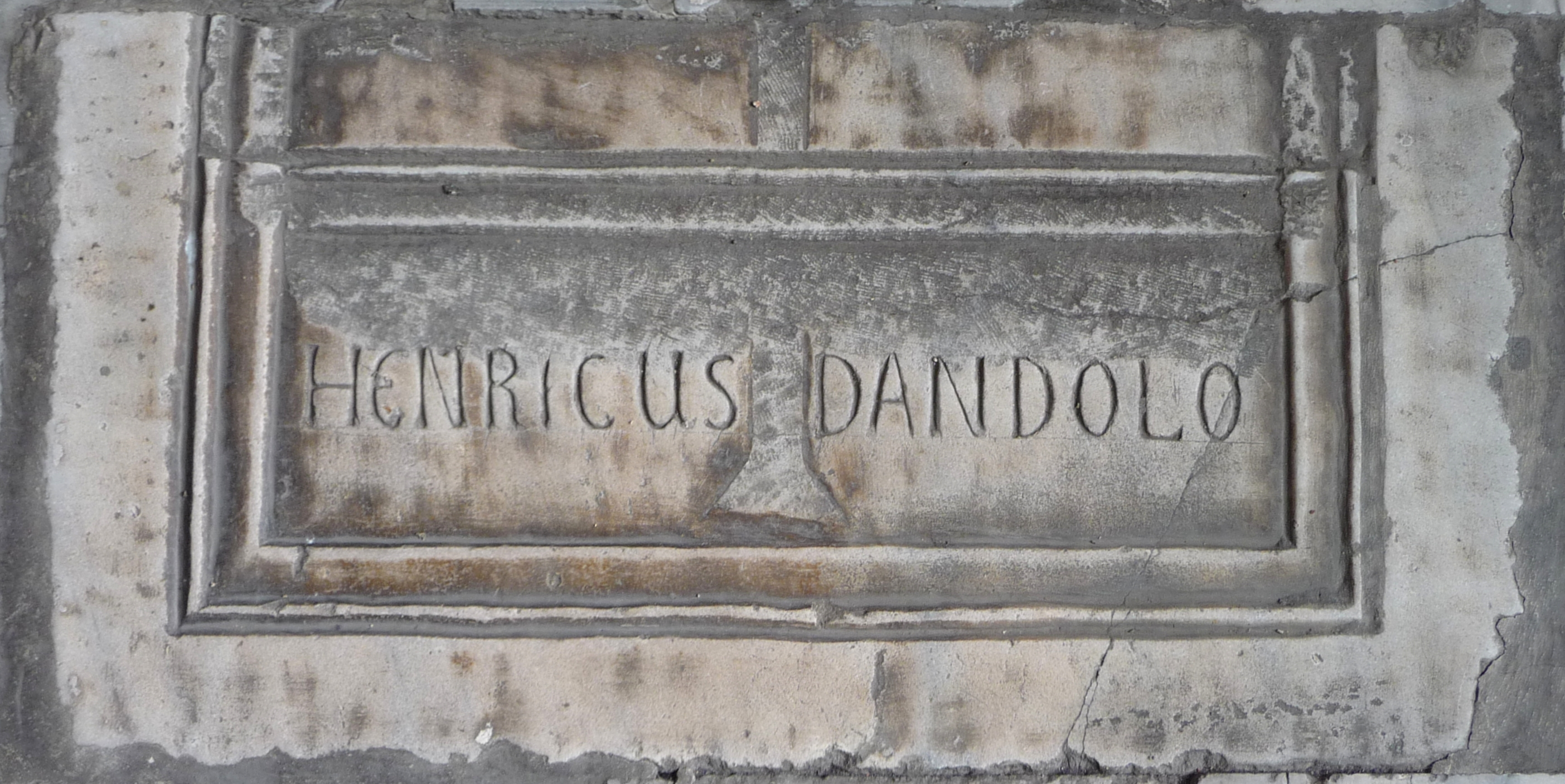 Cenotaph of Henricus Dandolo in Hagia Sophia (Istanbul, Turkey).